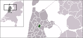 Locator map of Dutch municipalities in Noord-Holland (LocatieObdam.png)